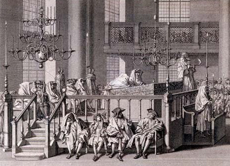 The Sounding of the Shofar on Rosh Hashanah, illustration circa 1733–1739 by Bernard Picart from "The Ceremonies and Religious Customs of the Various Nations of the Known World"